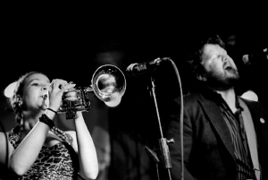 Thee Faction performing live at The Half Moon, Putney, 7th June 2012